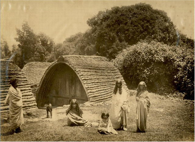 Toda people in front of their hut in the Nilgiri Hills.